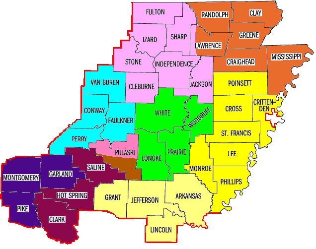 Quapaw Area Council districts locations in Arkansas Cherokee Delta Diamond Lake Foothills Mohawk Saracen Nischa Sipo Three Rivers Thunderbird White River